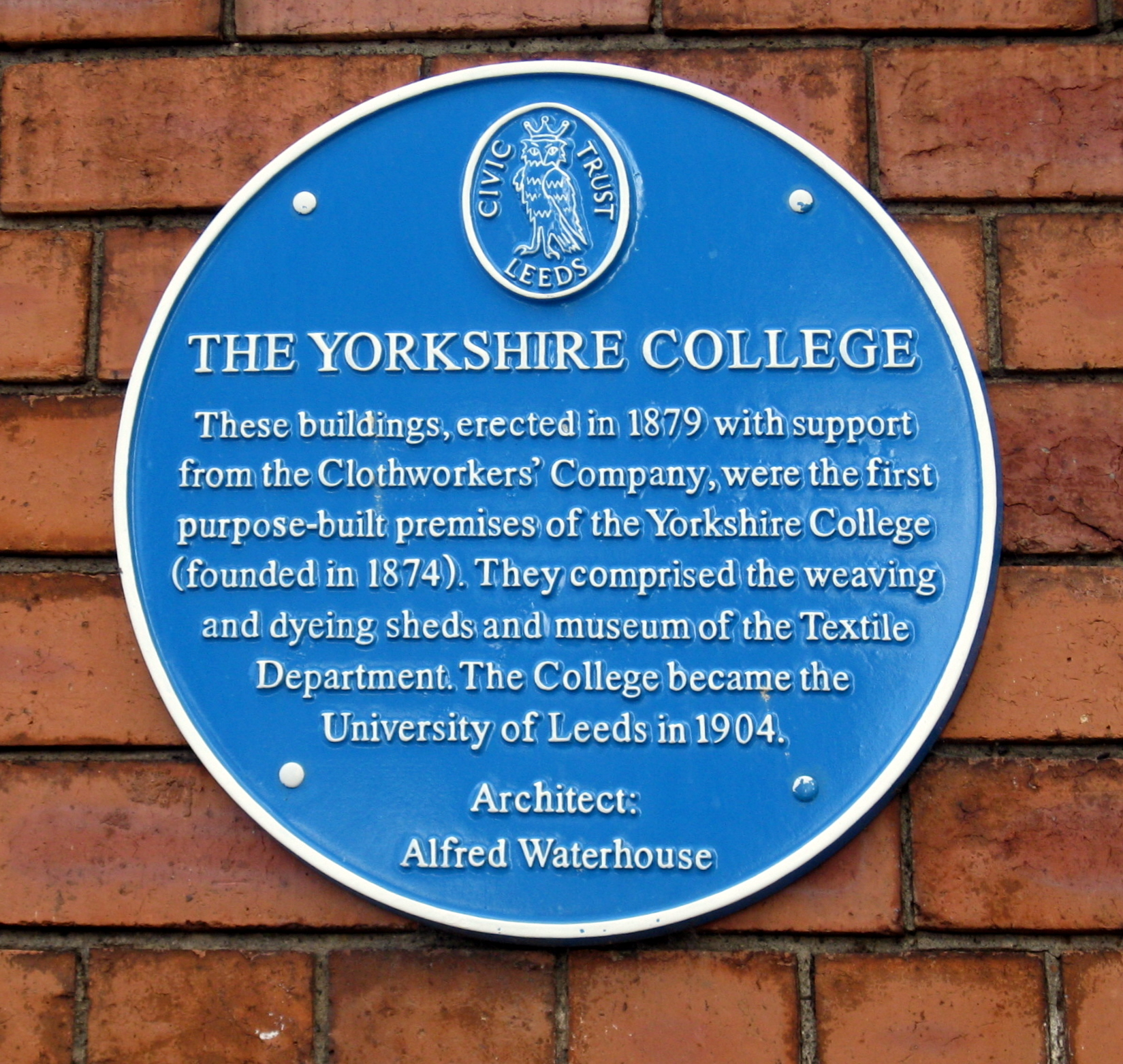 Blue plaque for Yorkshire College on the Textile buildings, University of Leeds.